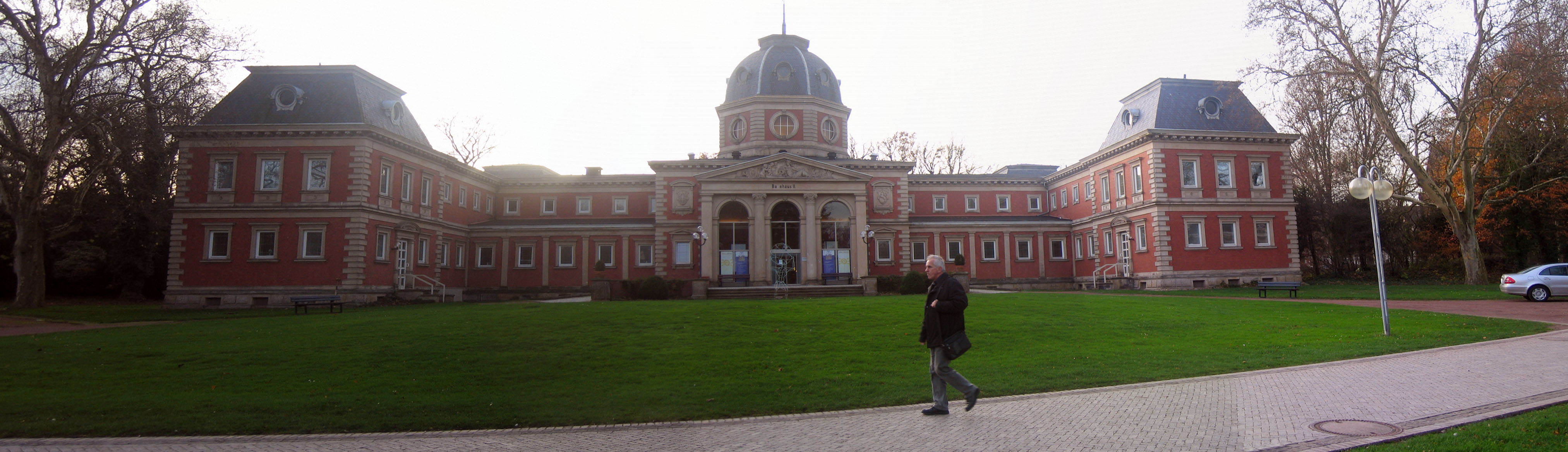 Spa Garden in Bad Oeynhausen, District of Minden-Lübbecke, North Rhine-Westphalia, Germany.